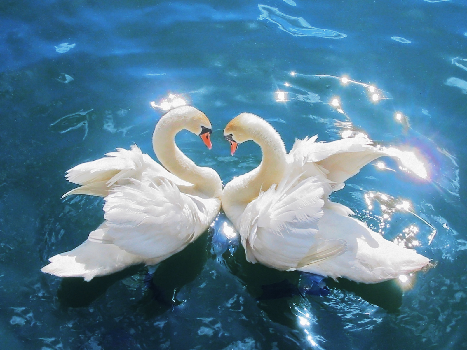 Two swans forming a heart shape